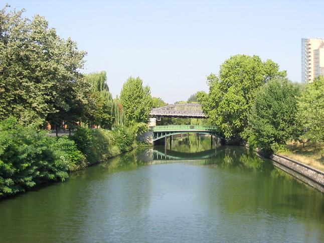 Landwehrkanal in Berlin-Kreuzberg. Reichpietschufer/Schöneberger Ufer, view to „Köthener Brücke“ and bridge for subway-2.